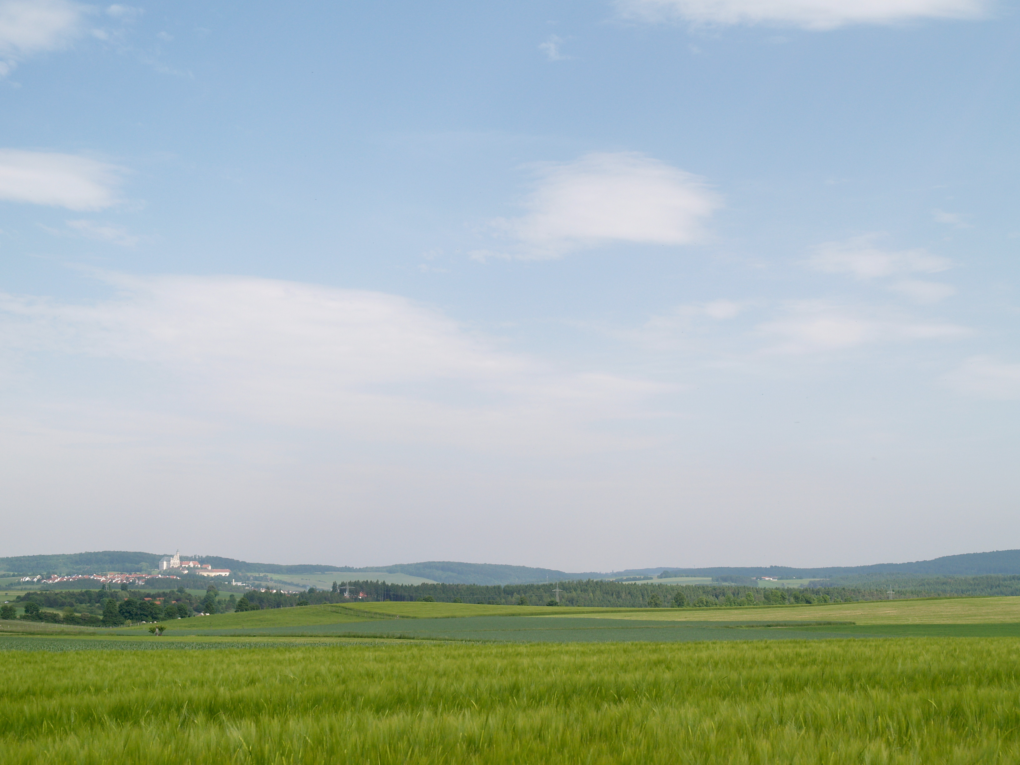 View from Aalen-Heidenheim airfield towards Neresheim abbey, Germany